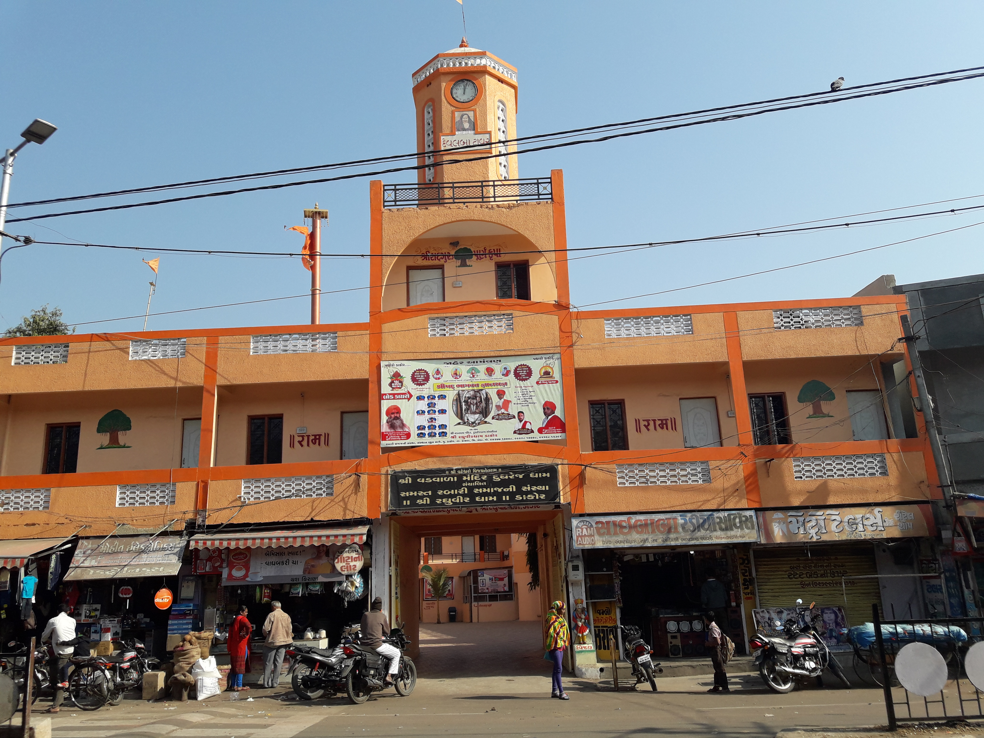 Devalba Tower located at Dakor, Gujarat, India.